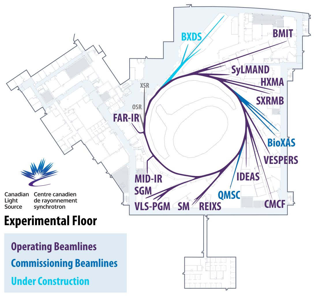 Layout of beamlines at the Canadian Light Source synchrotron